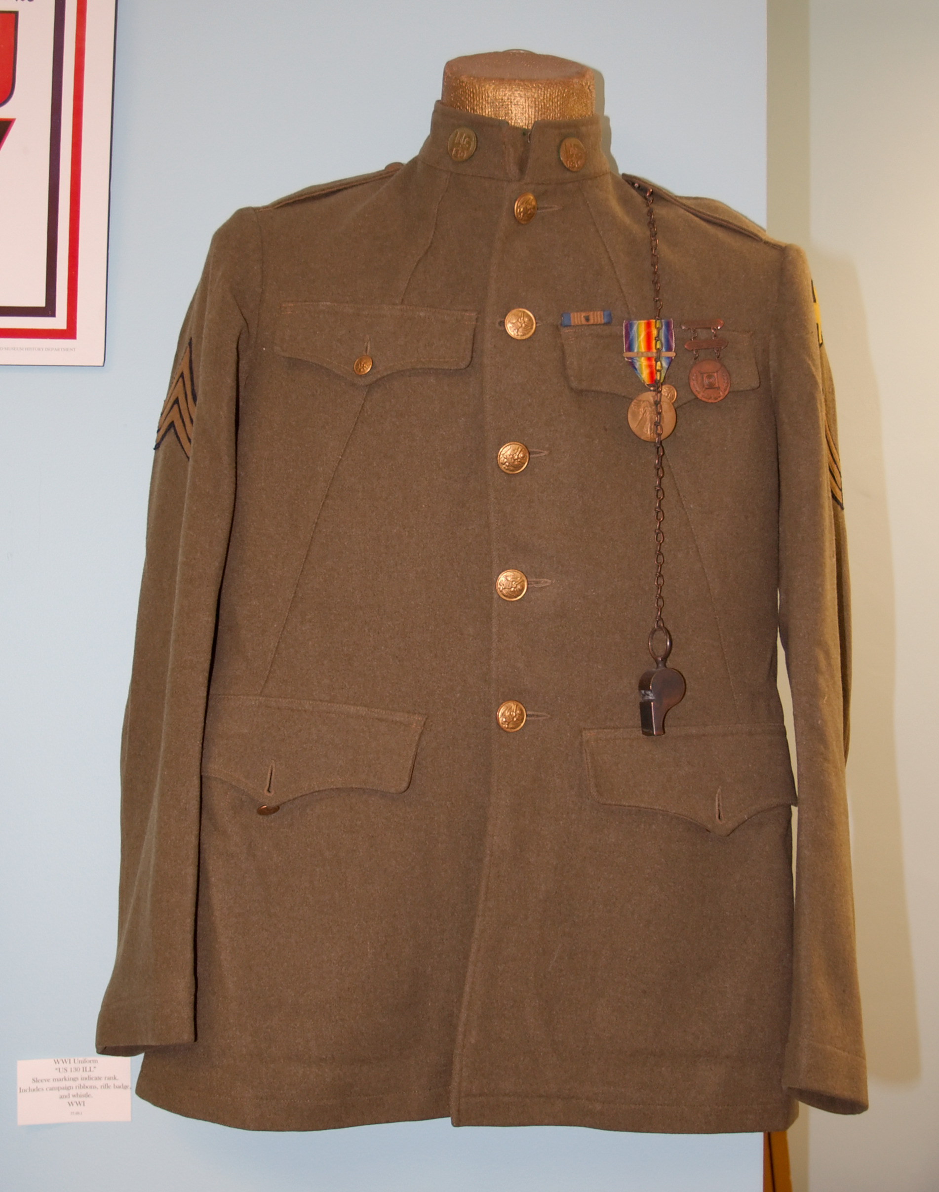 A WWI US military uniform, in the Champaign County Historical Museum, Champaign, IL